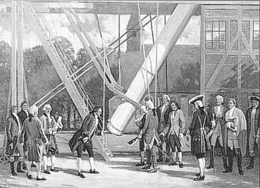 Observatory Johann Hieronymus Schröter